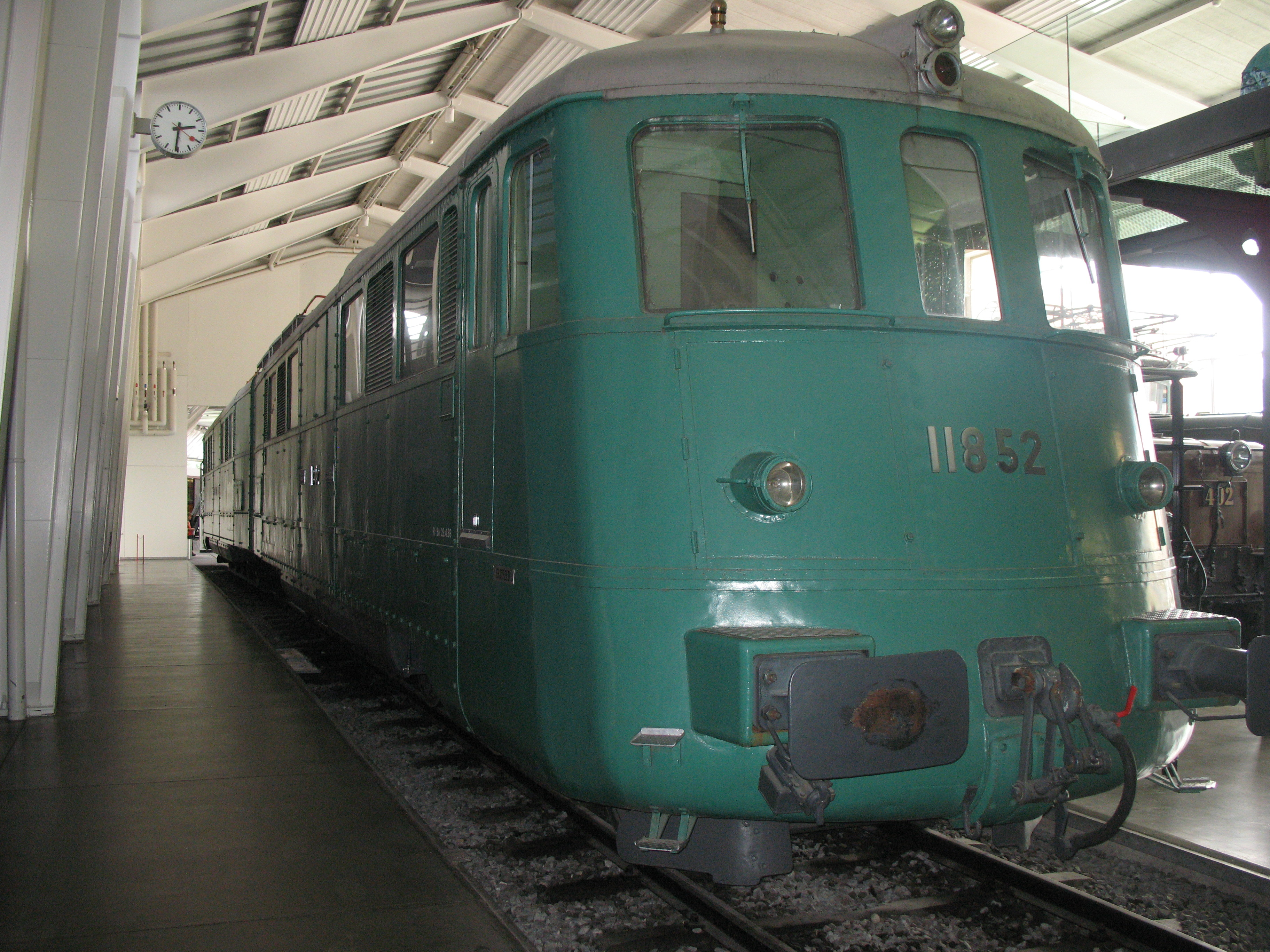 SBB-CFF-FFS Ae 8/14 in the Swiss Transport Museum, Luzern, Switzerland